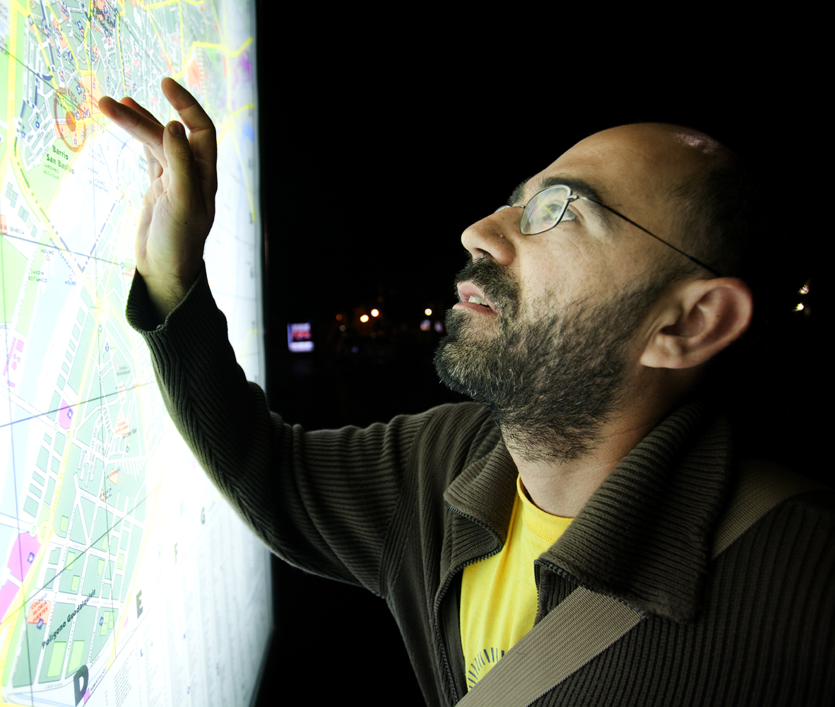 Óscar Esquivias in Córdoba (Spain)